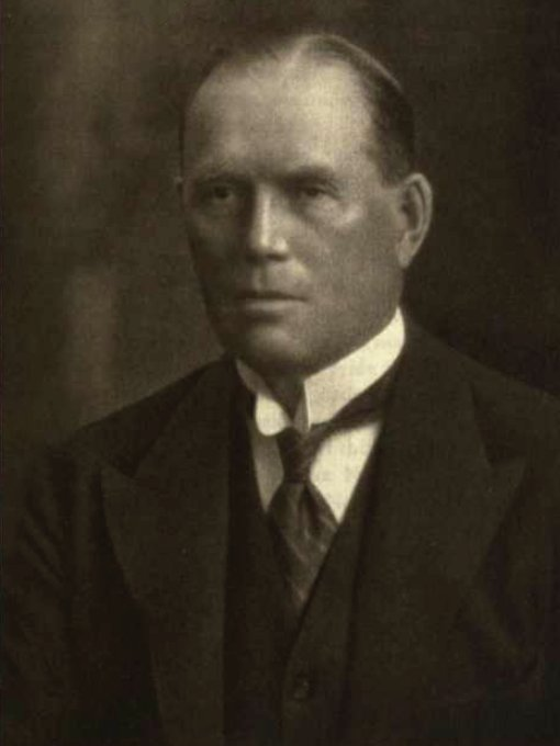 Herbert Samuel Holt Title: Fiftieth anniversary of the Royal Bank of Canada, established October eighteenth, 1869; a record of its progress during the past half century, 1869-1919 Creator: Royal Bank of Canada Publisher: [Montreal] Date: [c1920] Possible Copyright Status: NOT_IN_COPYRIGHT